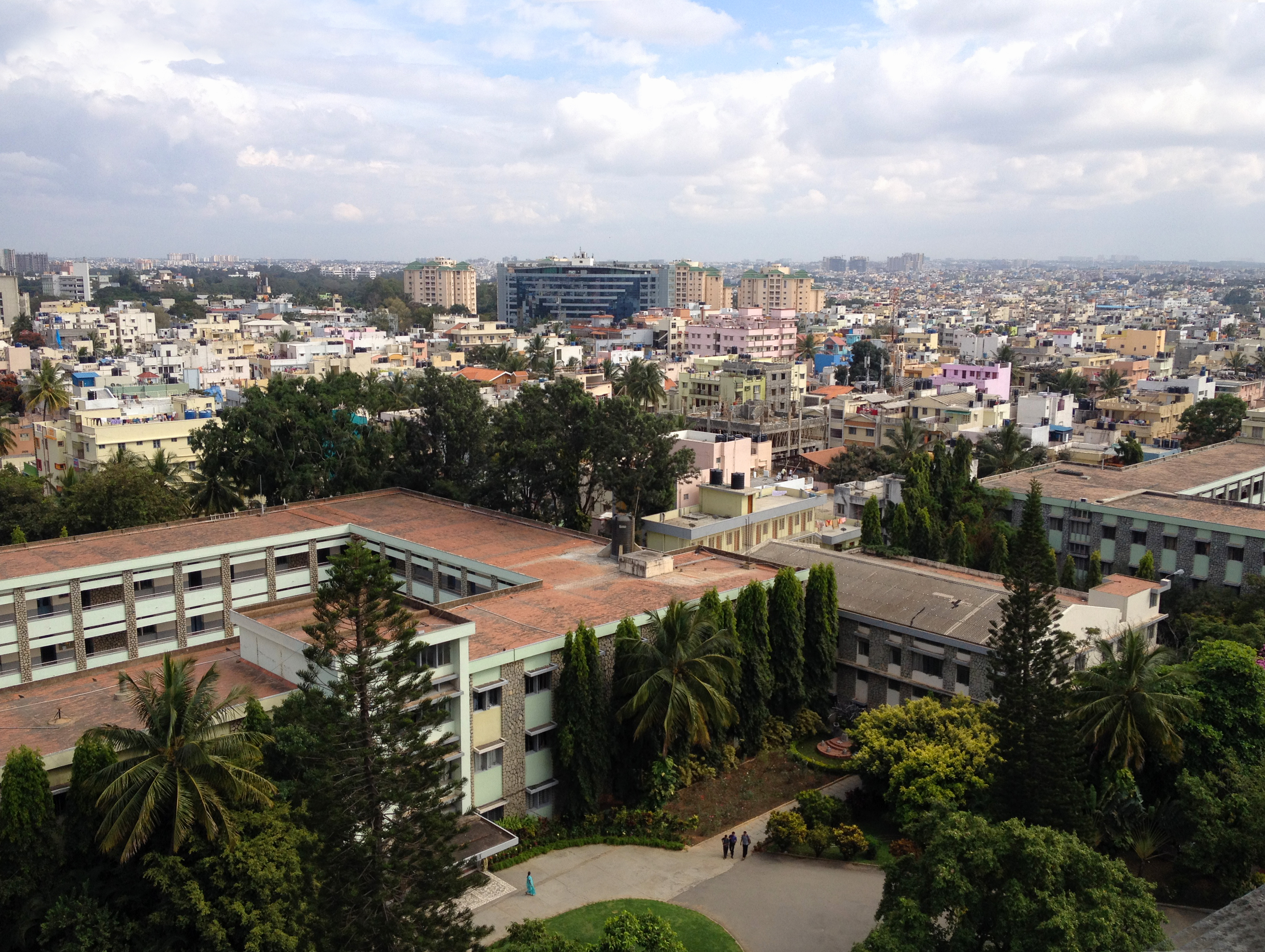 Aerial view of Diary Circle, shot from Christ University, Bangalore